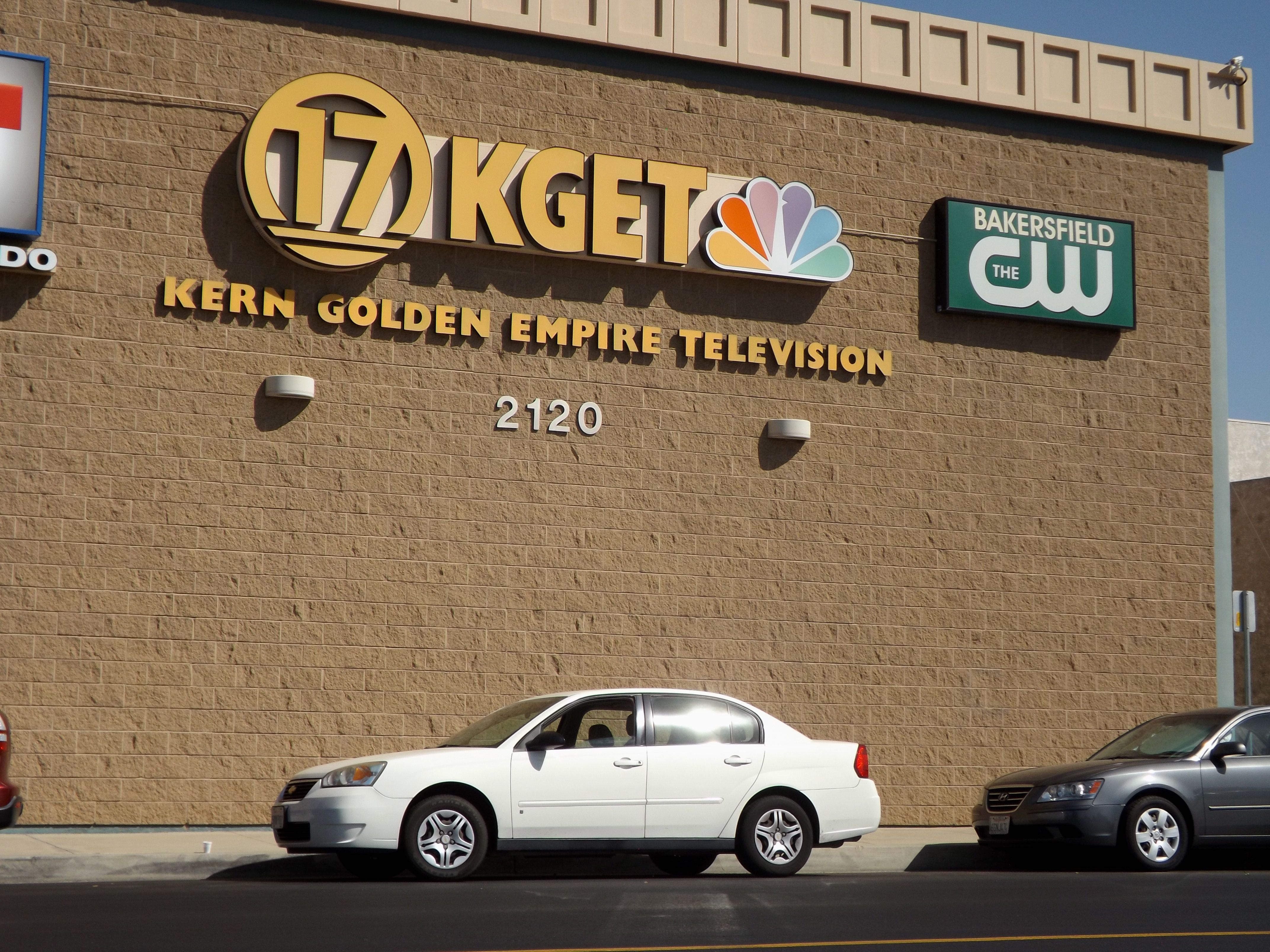 KGET building in Bakersfield, California, September 19, 2013 Other information Photo by George Garrigues.